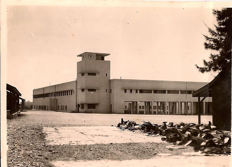 Exterior of Police Depot and Training School, Mount Scopus, Jerusalem, May-August 1943.